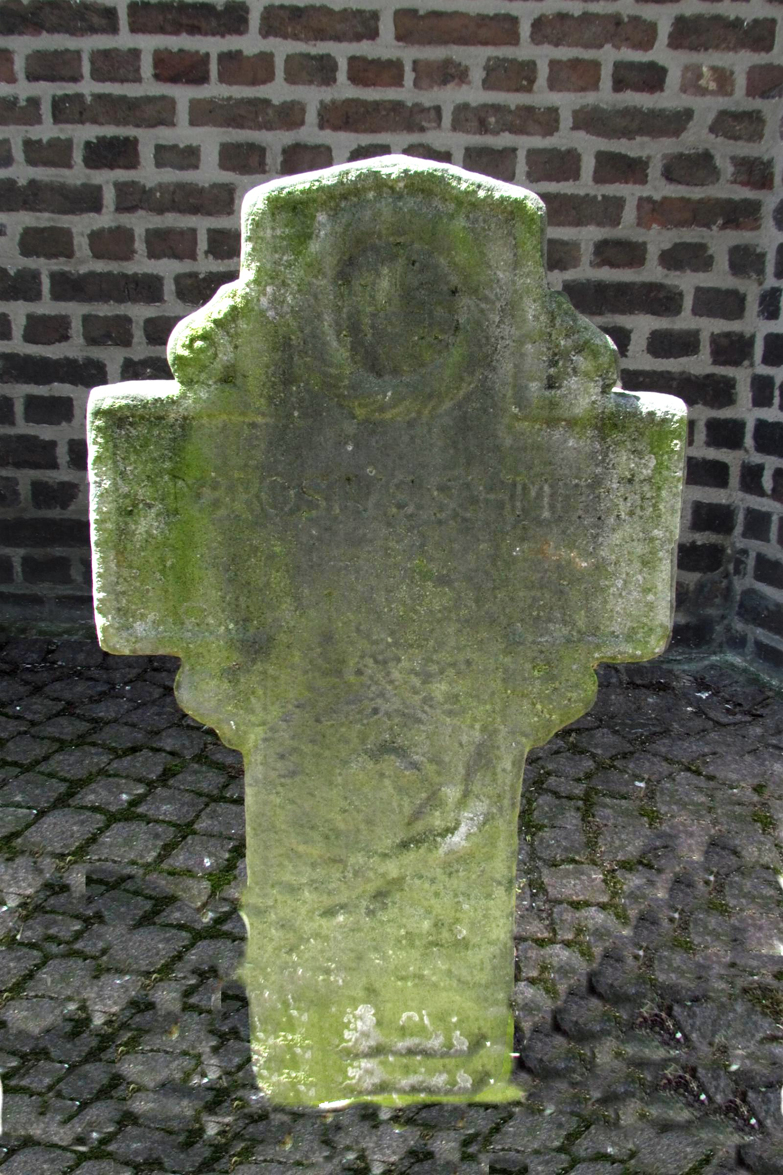 This is a photograph of an architectural monument.It is on the list of cultural monuments of Korschenbroich